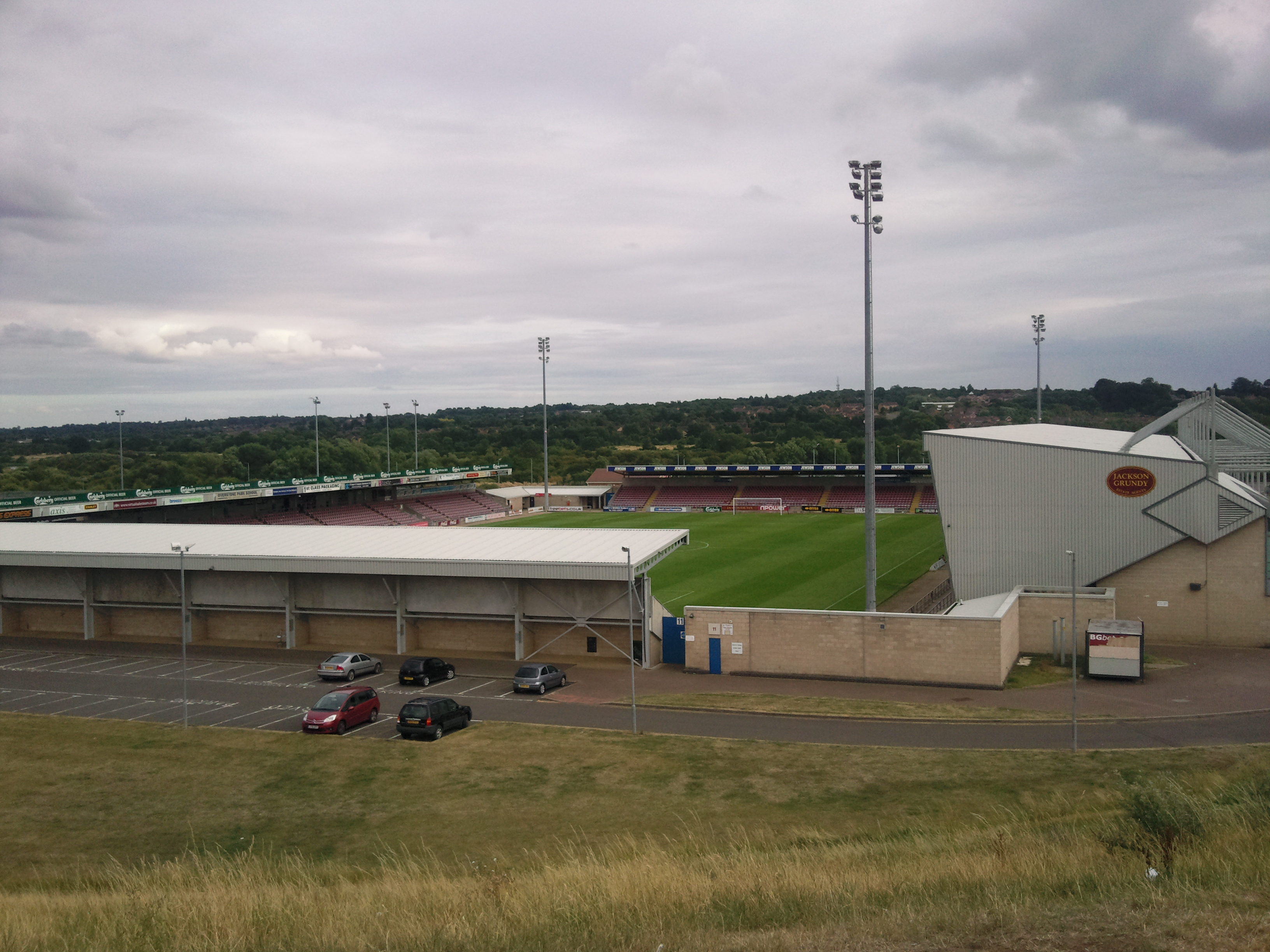 Northampton - Sixfields